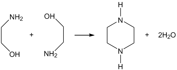 Synthesis of piperazine